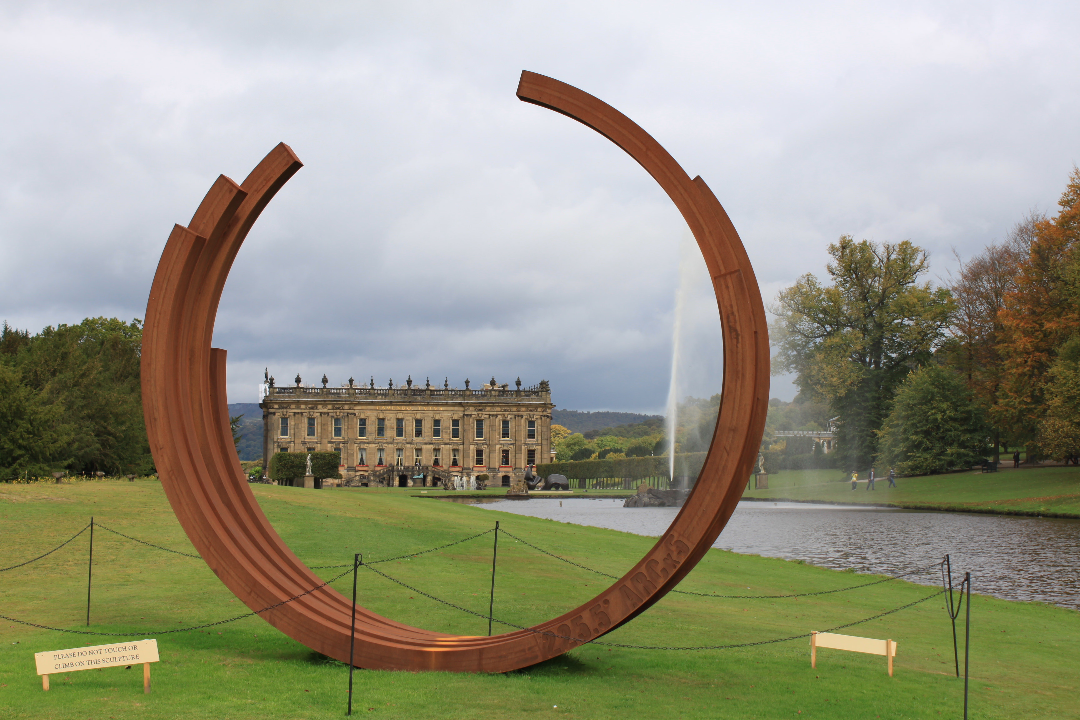 The Sculpture"225.5° Arc x 5" by Bernar Venet in Chatsworth Garden, Derbyshire during the 2009 exhibition "Beyond Limits"